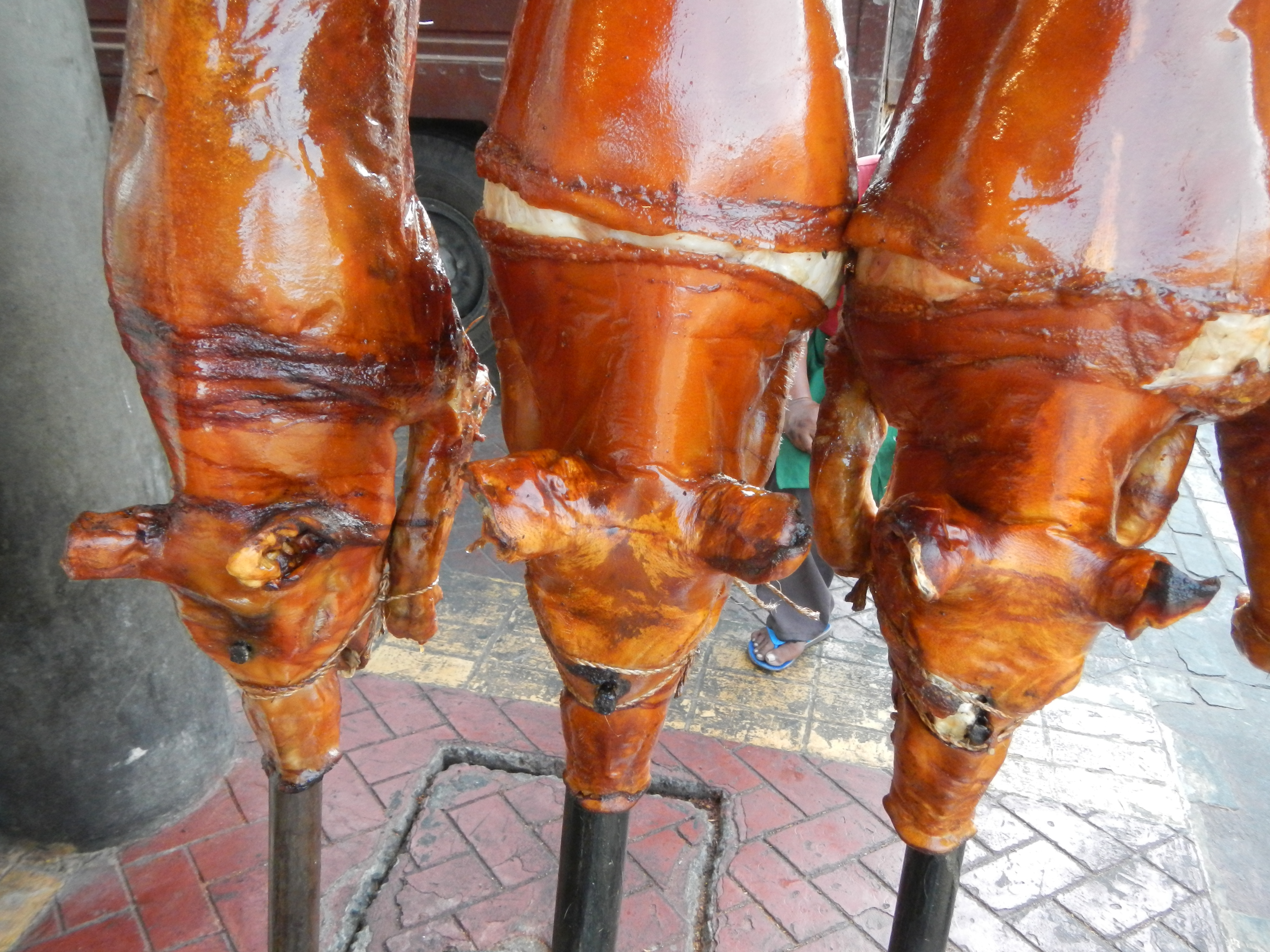 Junction, Crossing of Manila and Quezon City Highway Boundary and Quezon City Welcome Road sign, in N.S. Amoranto Avenue (formerly called Retiro; G. Araneta Avenue to A. Maceda Avenue) Junction, Crossing of Manila and Quezon City Highway Boundary and Quezon City Welcome Road sign, Legislative districts of Manila 4th District Barangay 493, Zone 49, District 4, Blumentrit Extension, Sampaloc, Manila, upon Blumentritt Road, in Manila North Cemetery and Legislative districts of Quezon City Districts 1 and 6, Barangays of Quezon City, Camachile (Balongbato), Unang Sigaw, alternate name is Balintawak or Apolonio Samson, Unang Sigaw (Balintawak) District 6, La Loma, Lechon Capital of the Philippines, Paang Bundok (La Loma Heights) and Salvacion (La Loma), Maharlika (Santa Mesa Heights) and Lourdes, District 1, Area 6, (Santa Mesa Heights), San Isidro Labrador (La Loma) and Santa Teresita (Mayon), and N. S. Amoranto (La Loma) and San Jose (La Loma), and Balingasa (A. Bonifacio Kalapati), Quezon City, Lourdes School of Quezon City (LSQC) beside Sampaloc,_Manila in N.S. Amoranto Avenue (formerly called Retiro; G. Araneta Avenue to A. Maceda Avenue).